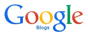 Google Blogs logo